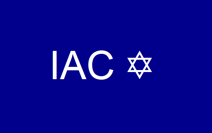 Flag of the Israeli American Council with the Star of David.